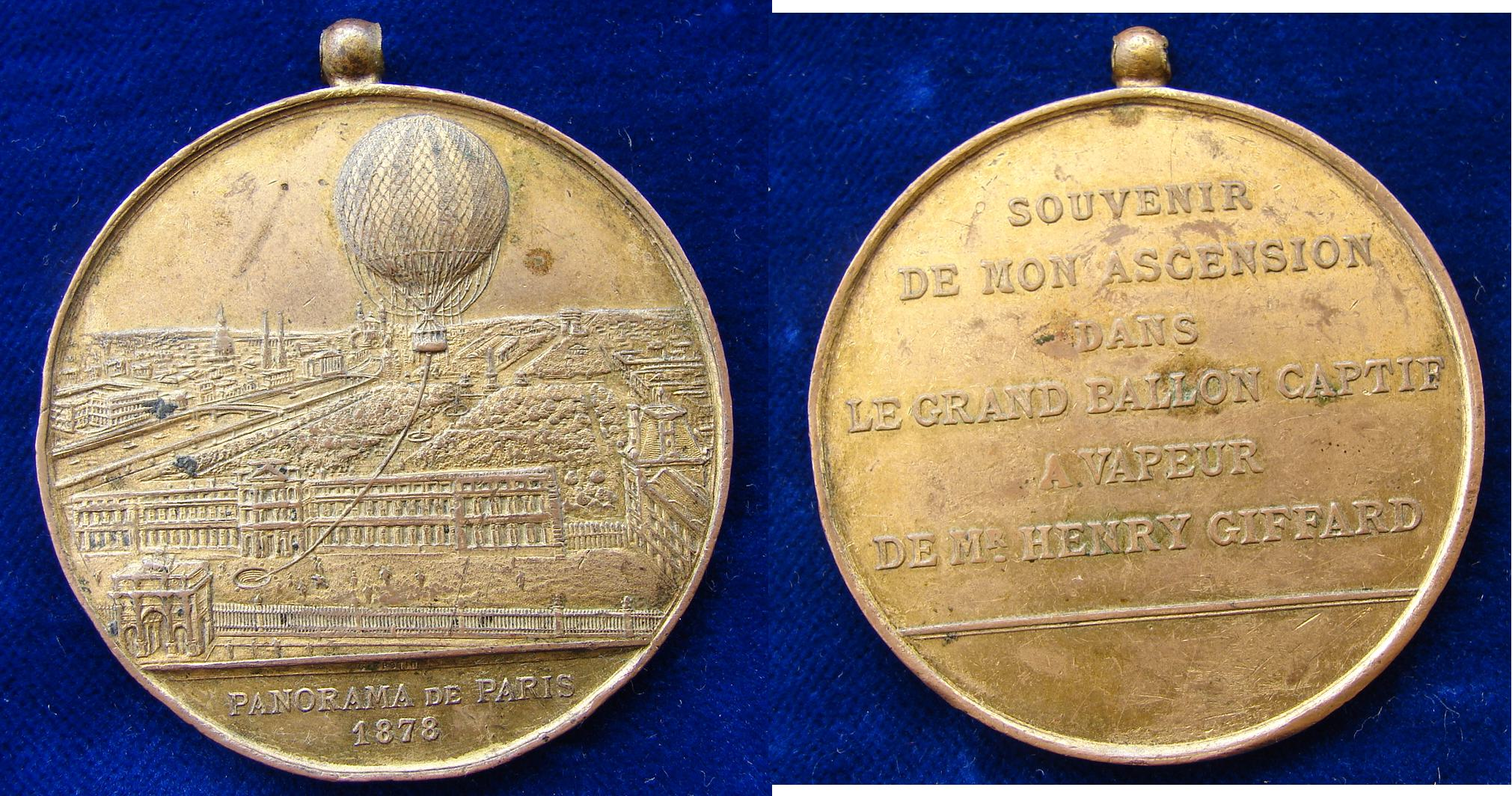 Giffard, Baptiste, Henri, Jaques, Aeronautics Pioneer, 1825 Paris - 1882 Paris City view of Paris and Giffard's Hot Air Balloon at the Word Exhibition 1878. Below in 2 lines: "PANORAMA DE PARIS 1878" / 6 lines: "SOUVENIR DE MON ASCENSION DANS LE GRAND BALLON CAPTIV A VAPEUR DE MR HENRI GIFFARD". Button 16. Medallist: C. (Charles) Trotin, 1833 Paris - ?